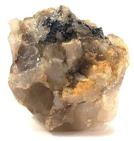 Crichtonite, Quartz Locality: St Christophe-en-Oisans, Bourg d'Oisans, Isère, Rhône-Alpes, France (Locality at ) Crichtonite is a very rare, complex oxide containing a number of rare earths. This is surely an old piece, as it comes from the now defunct old workings of the TYPE LOCALITY in Isere. This piece features sharp crystals of up to 2 mm, on contrasting matrix, and they are readily visible. 6 x 4.6 x 3.2 cm.